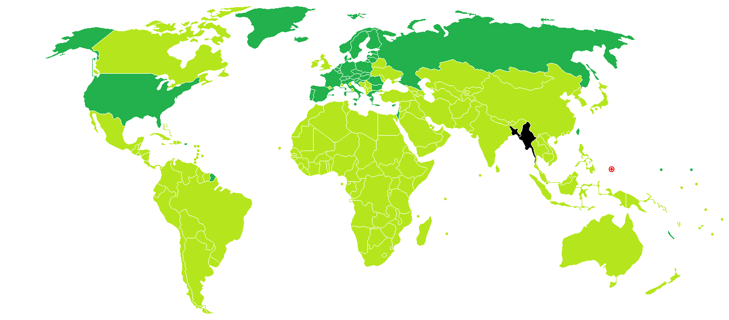 Visa policy of Palau Palau Visa-free Visa on arrival Visa required